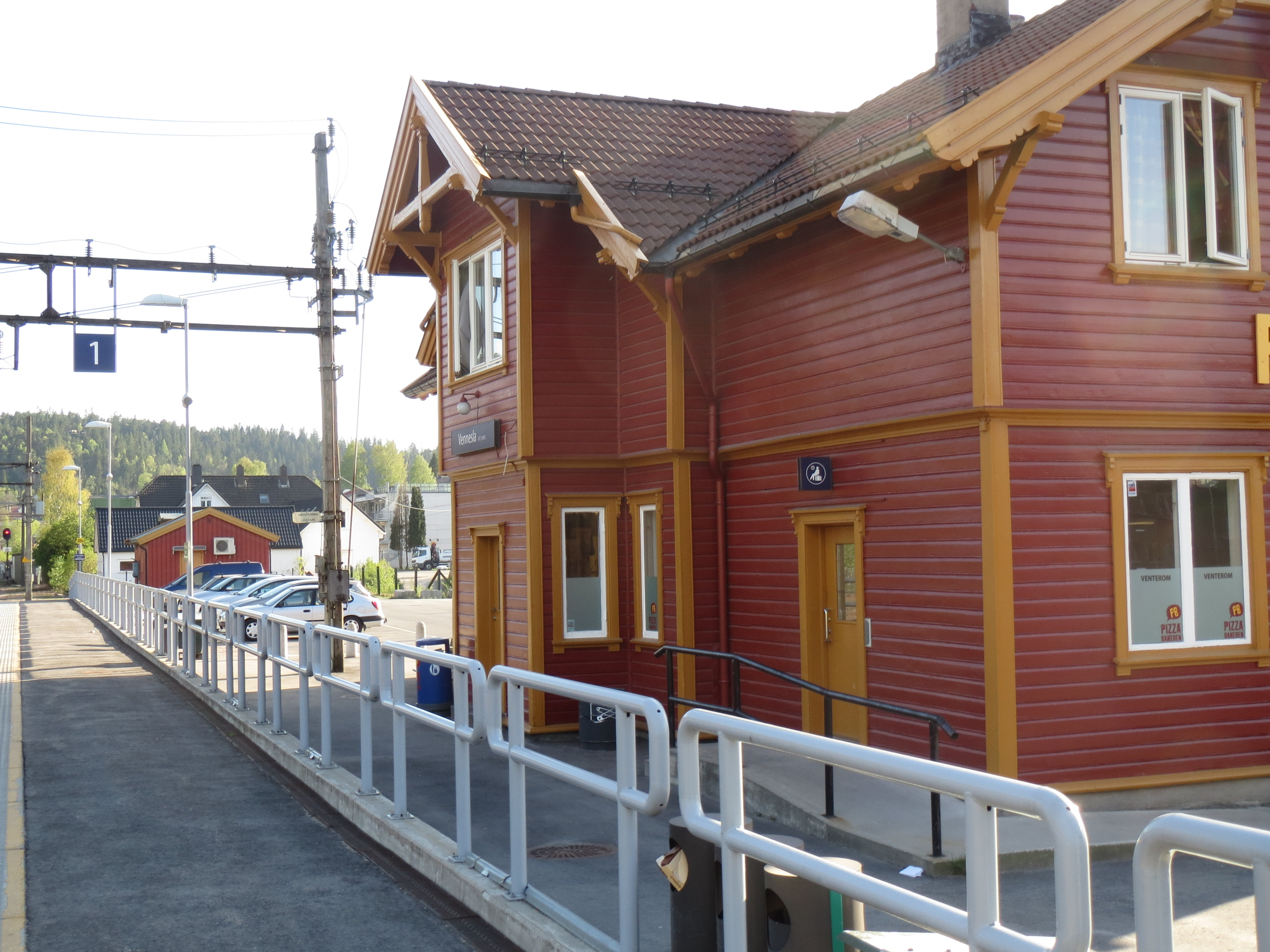 Vennesla Station, Vennesla, Norway